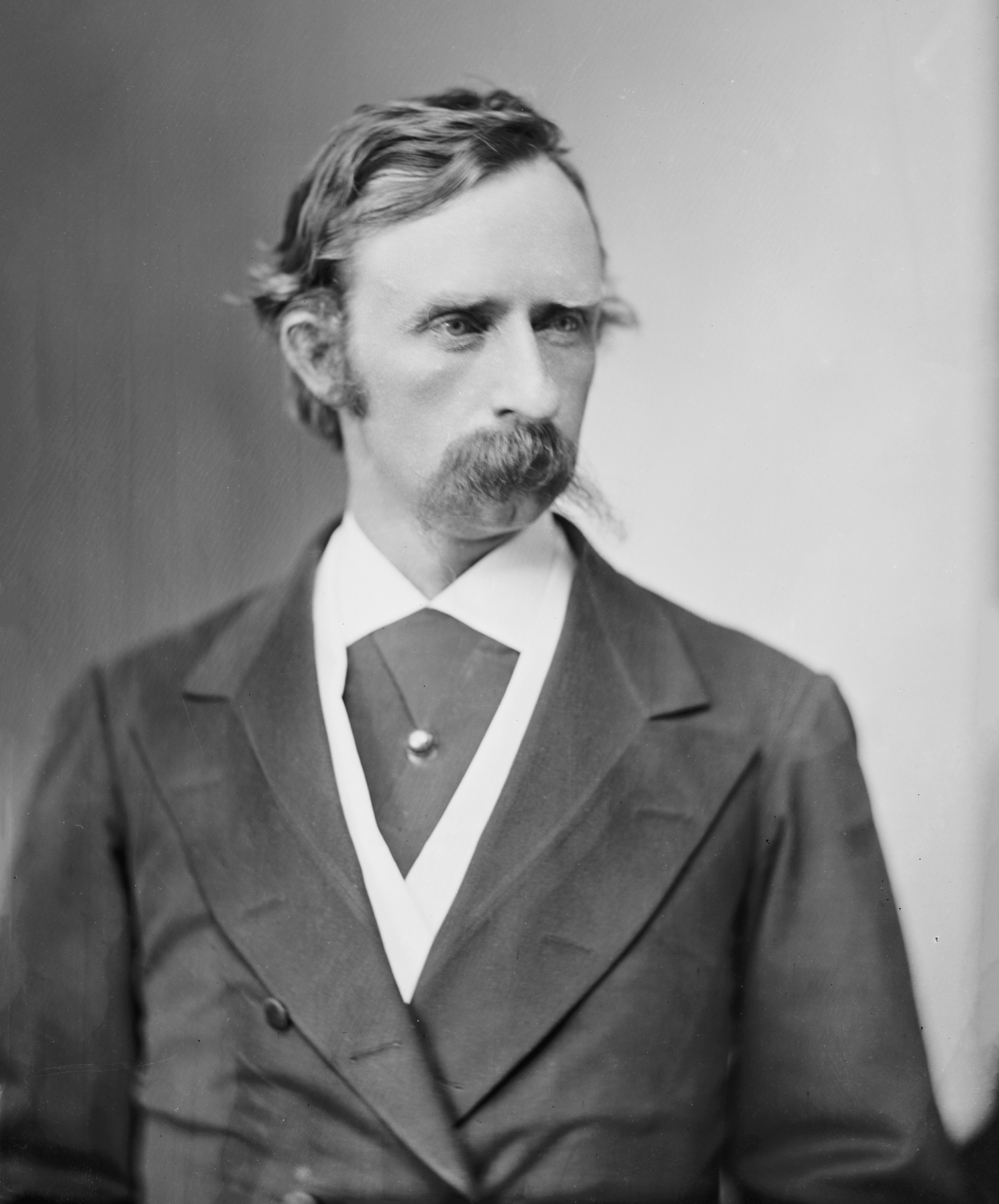 American Army officer George Armstrong Custer.